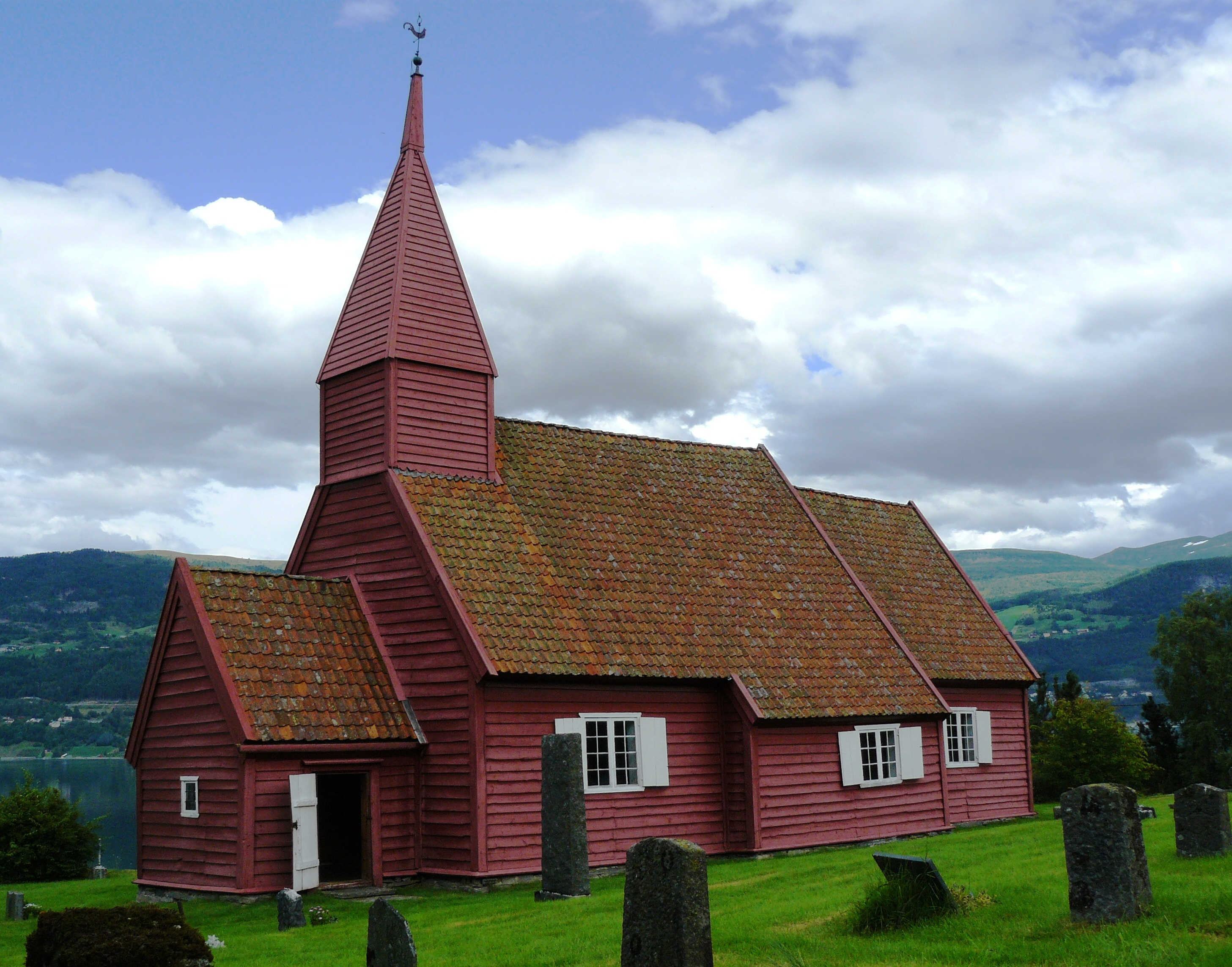 Gimmestad old church in Gloppen, south side facade and entrance.jpg